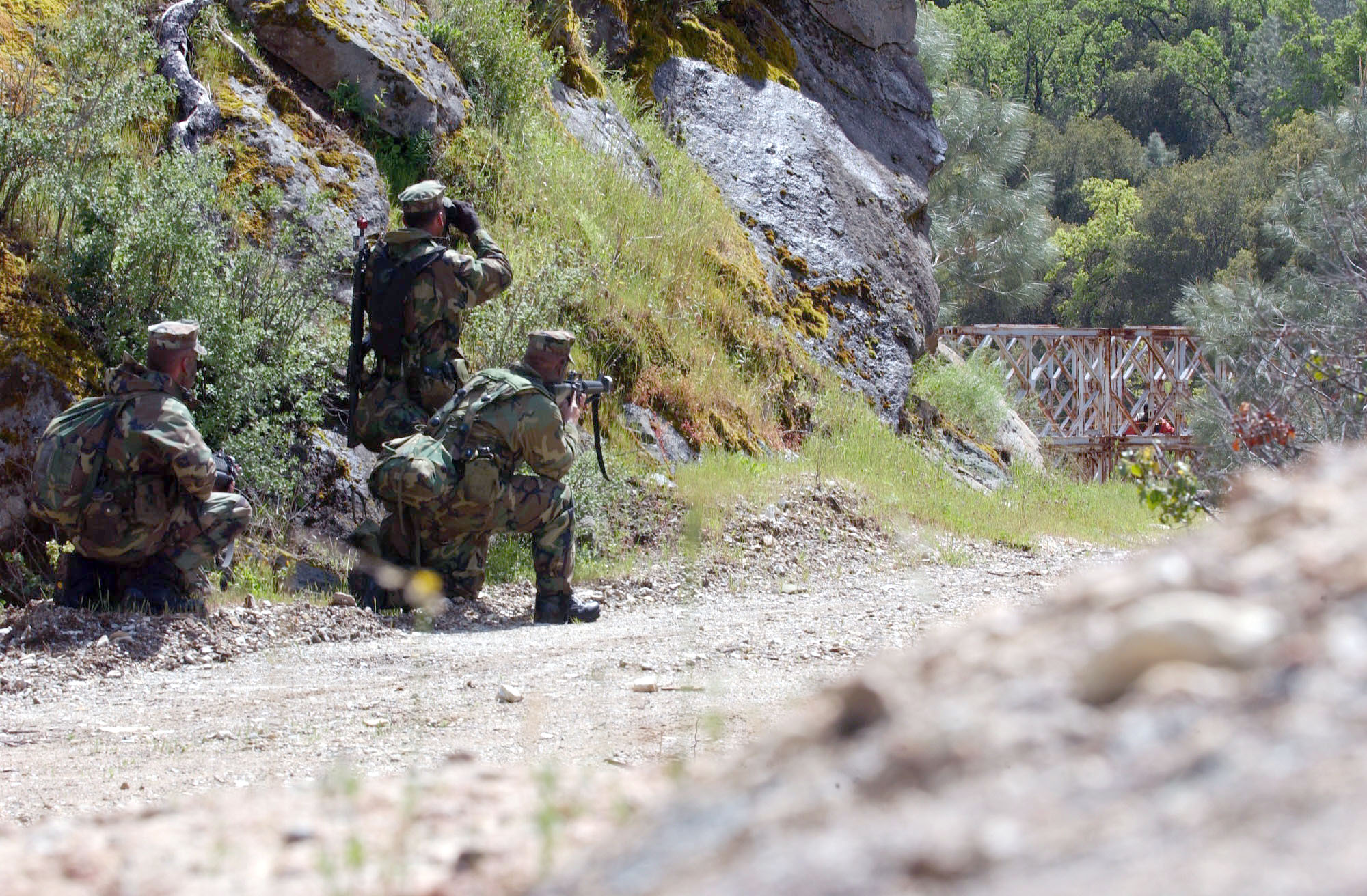 Fort Hunter-Liggett, Monterey, Calif. (Apr. 12, 2003) -- U.S. Navy Seabees assigned to Naval Mobile Construction Battalion Forty's (NMCB-40) Seabee Engineer Reconnaissance Team (SERT) reach their mission destination to determine if an old bridge can be used to support troop and convoy movements during an annual field exercise. NMCB-40 is home ported at Naval Base Ventura County. U.S. Navy photo by Photographer's Mate Airman Lamel J. Hinton. (RELEASED)